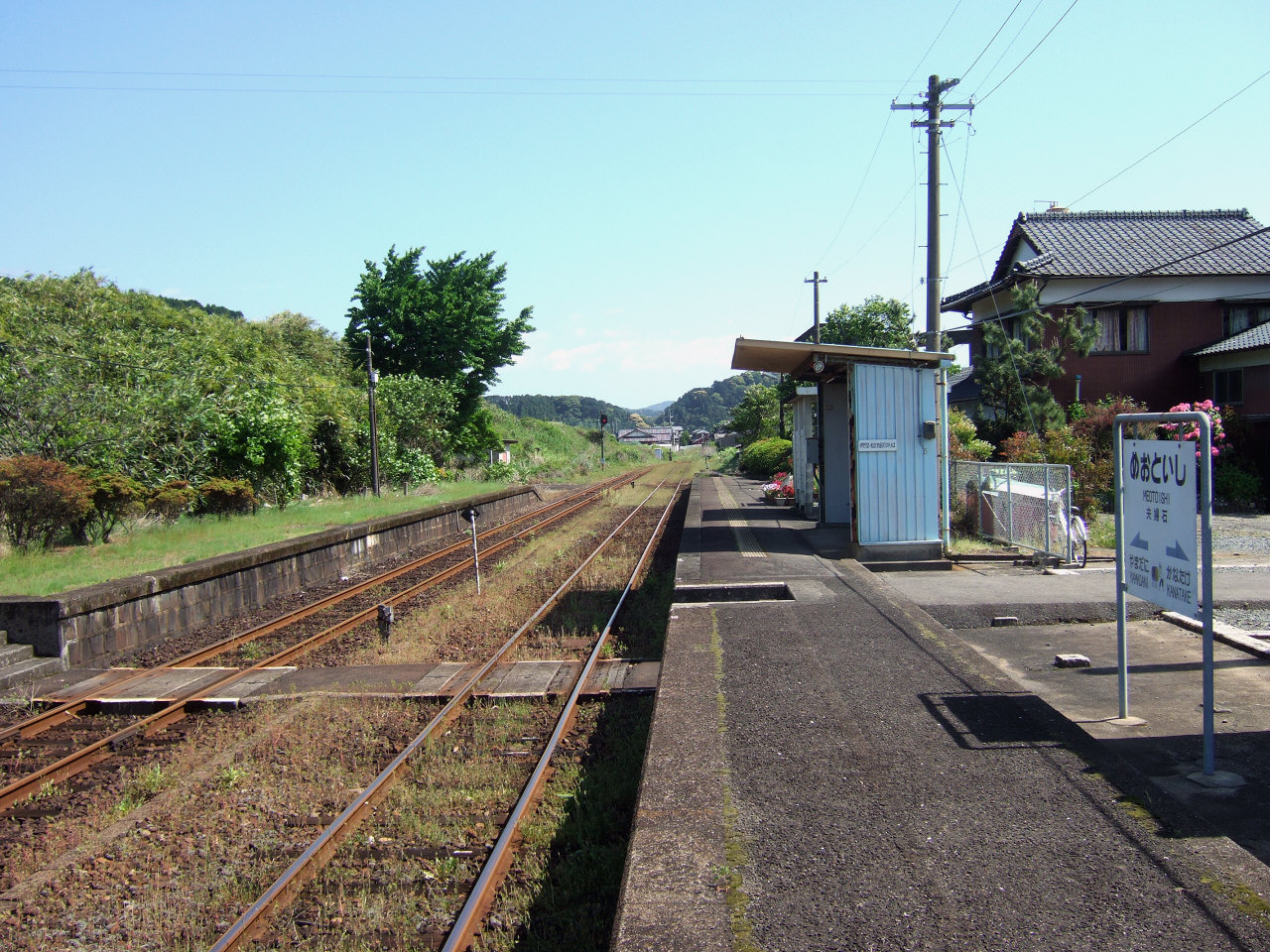 Matsuura Railway Meotoishi Station